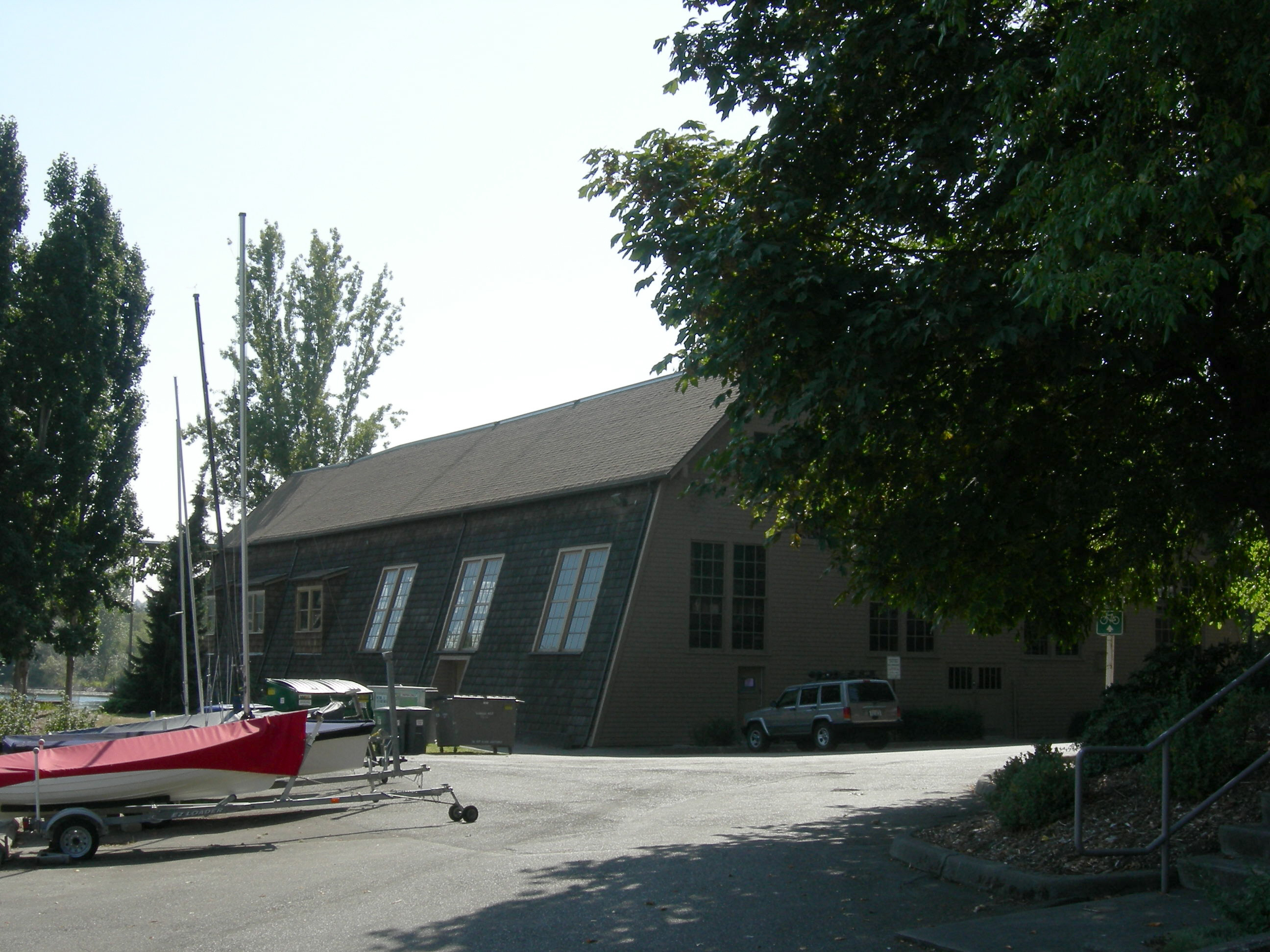 Naval Military Hangar-University Shell House-Canoe House, University of Washington Waterfront Activities Center on the Montlake Cut of the Washington Ship Canal as it enters Union Bay. Built in 1918 by the U.S. Navy to serve as a hangar for the Aviation Training Corps, it was never used it for that purpose. It was donated to the university, whose rowing team stored its racing shells there until 1949. It is now the "Canoe House", associated with the Waterfront Activities Center. As of 2007, it is the only University of Washington structure (unless one counts the off-campus Sigma Kappa Mu fraternity) on the National Register of Historic Places, ID #75001856.